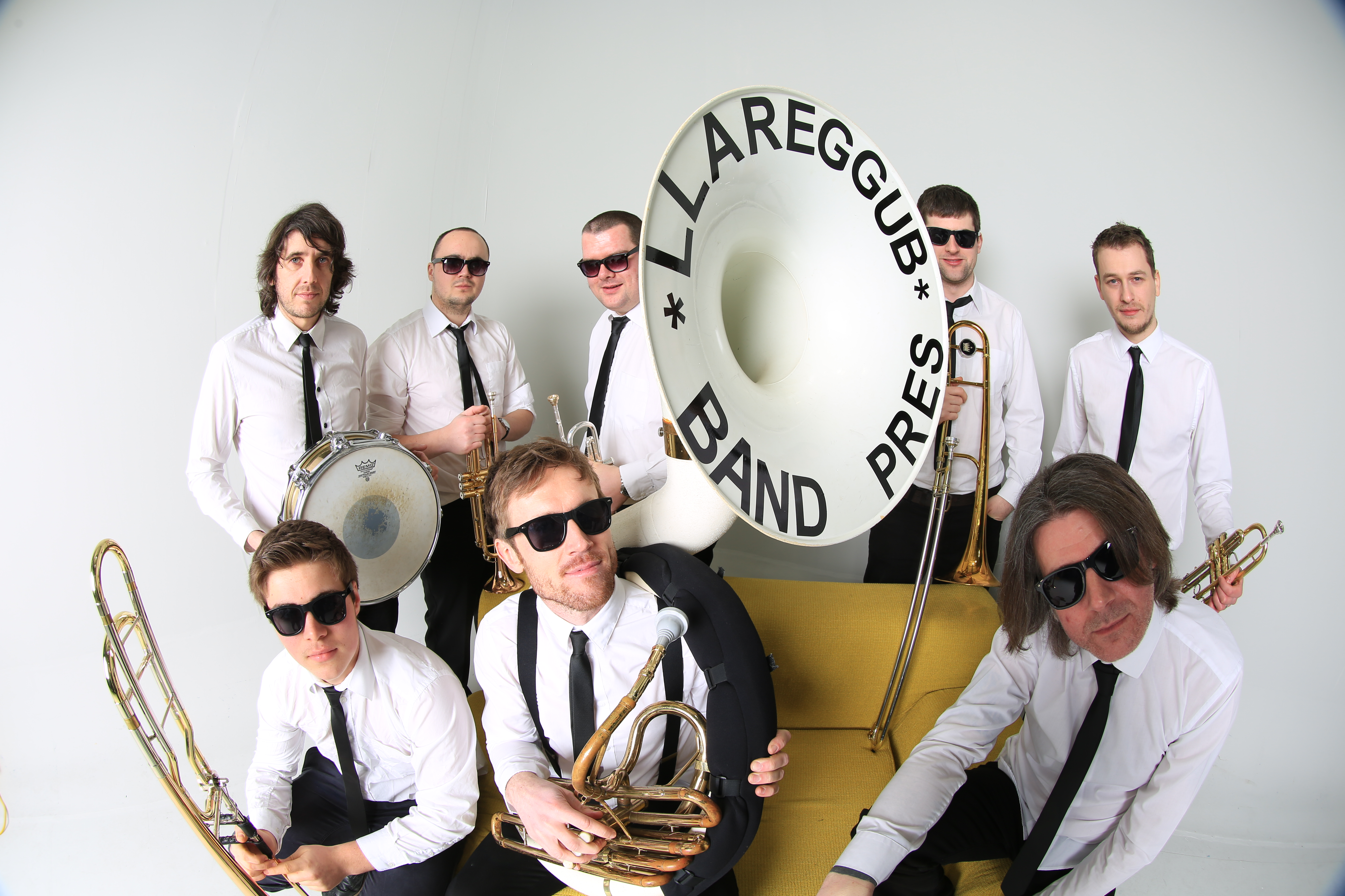 Band Pres Llareggub. A Welsh band.